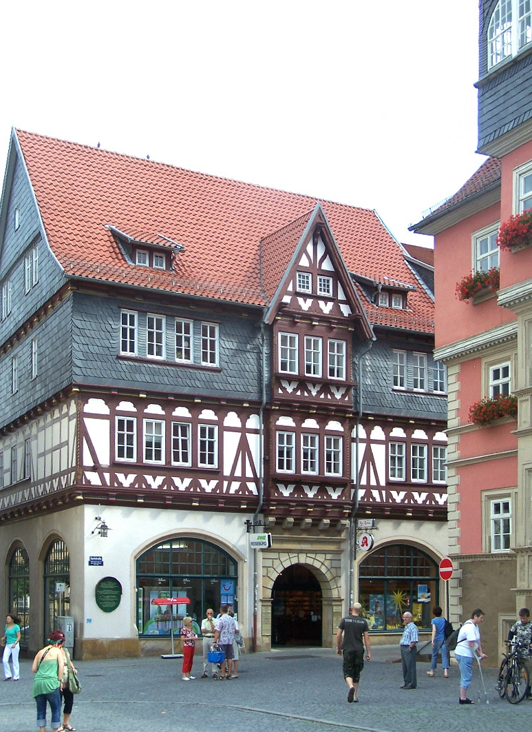 The Ratsapotheke in Eisenach, Karlstrasse - one of the oldest pharmacy received in Thuringia.